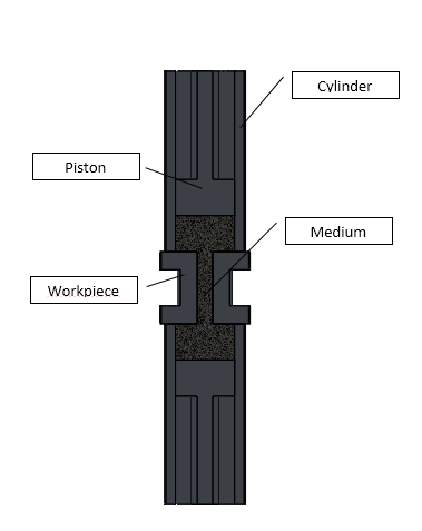 Abrasive flow machining (AFM), also known as abrasive flow deburring or extrude honing, is an interior surface finishing process characterized by flowing an abrasive-laden fluid through a workpiece.